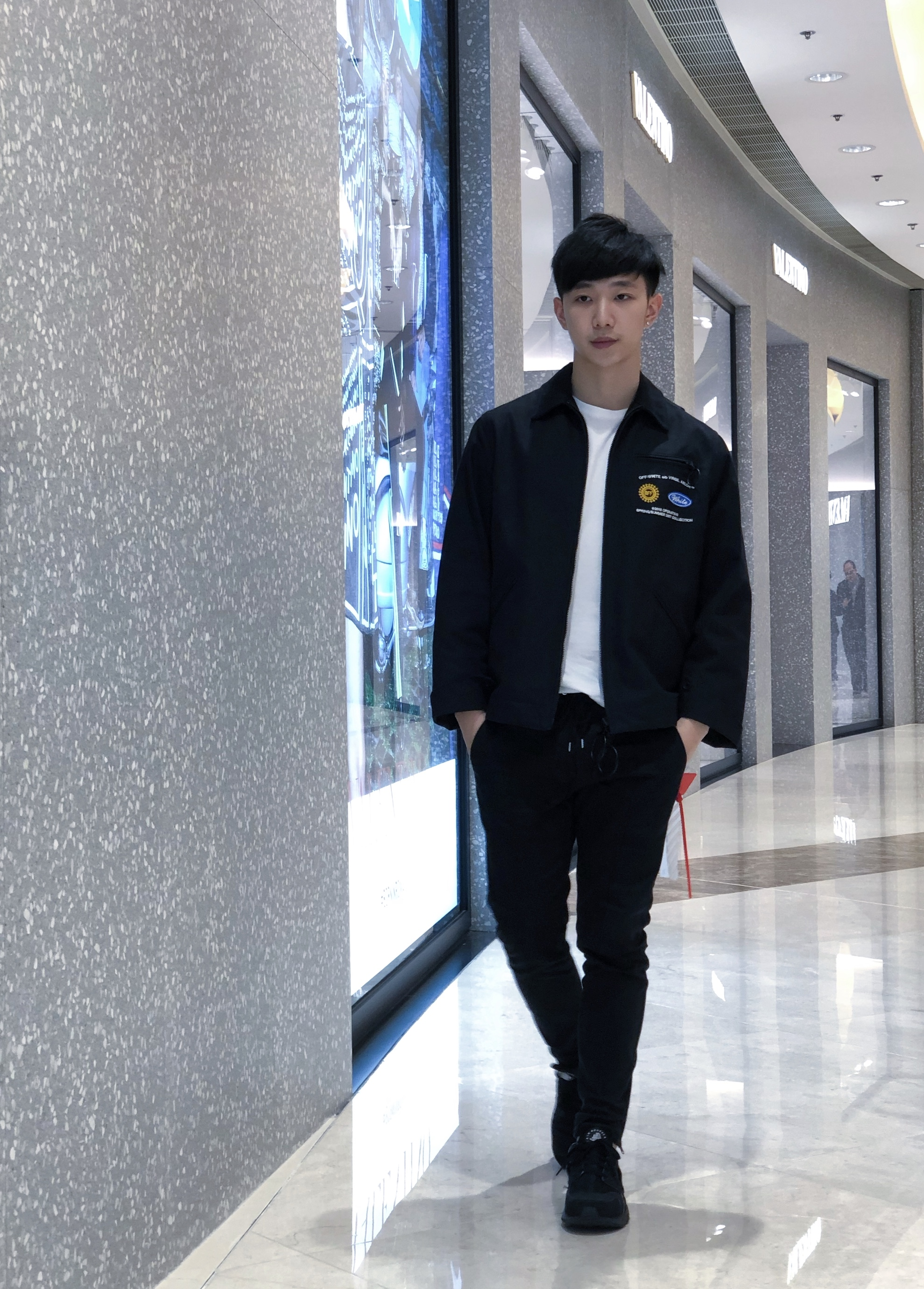 Hong Kong-based artist debuted in 2018